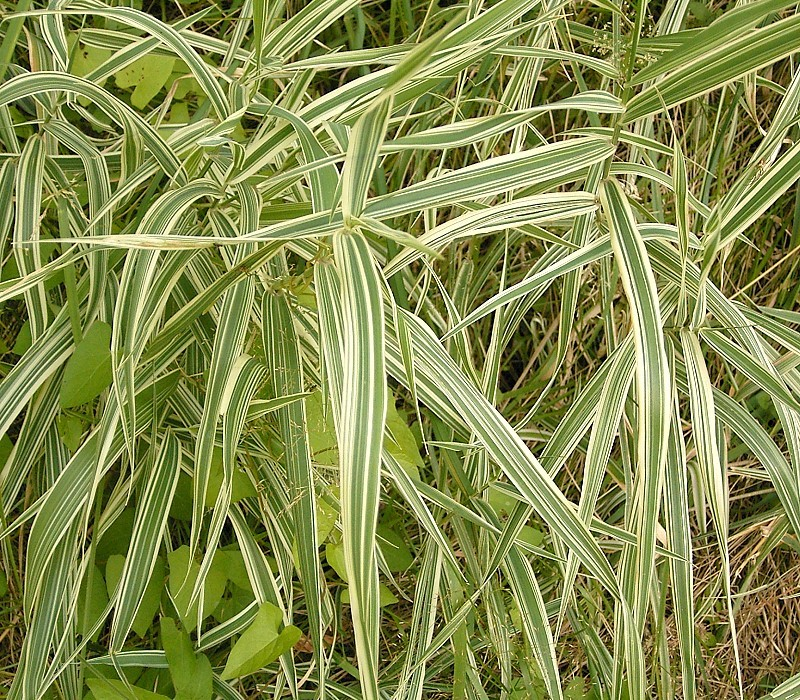 Phalaris arundinacea